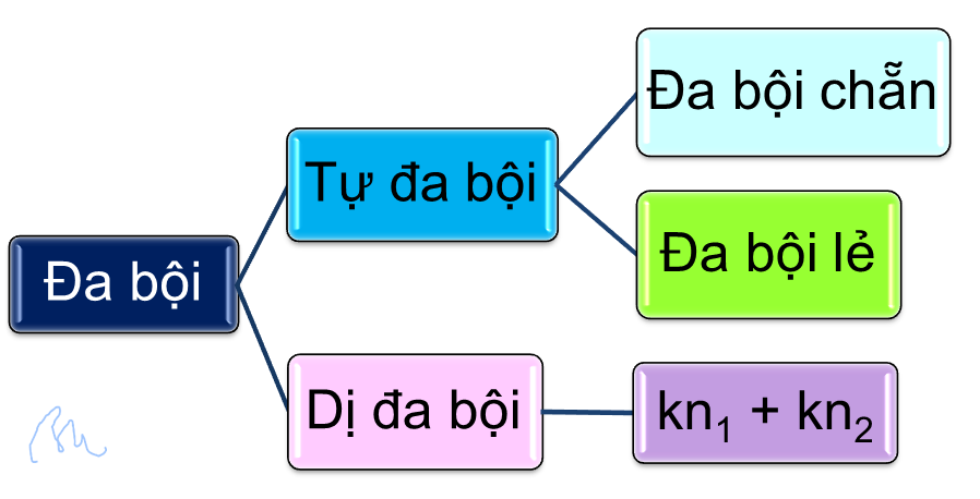 Forms of polyploidy.